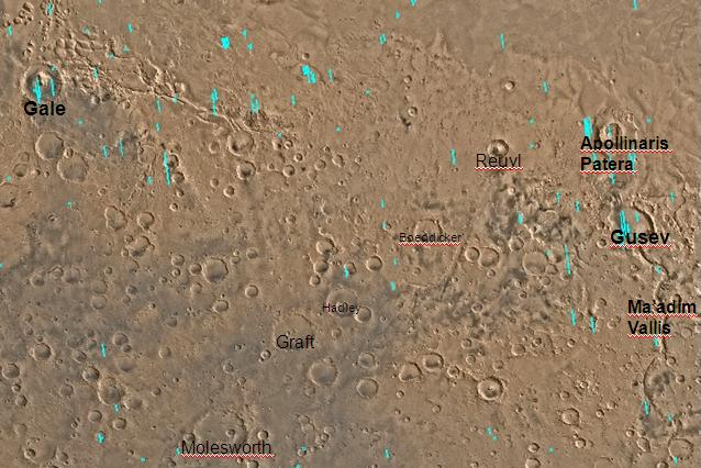 Map of Aeolis quadrangle, Mars. The small, colored rectangles represent image footprints for the narrow angle camera on the Mars Global Surveyor. Some are about 1 mile wide, the others are about 2 miles wide. The map was made by the U.S. Geological survey for NASA.